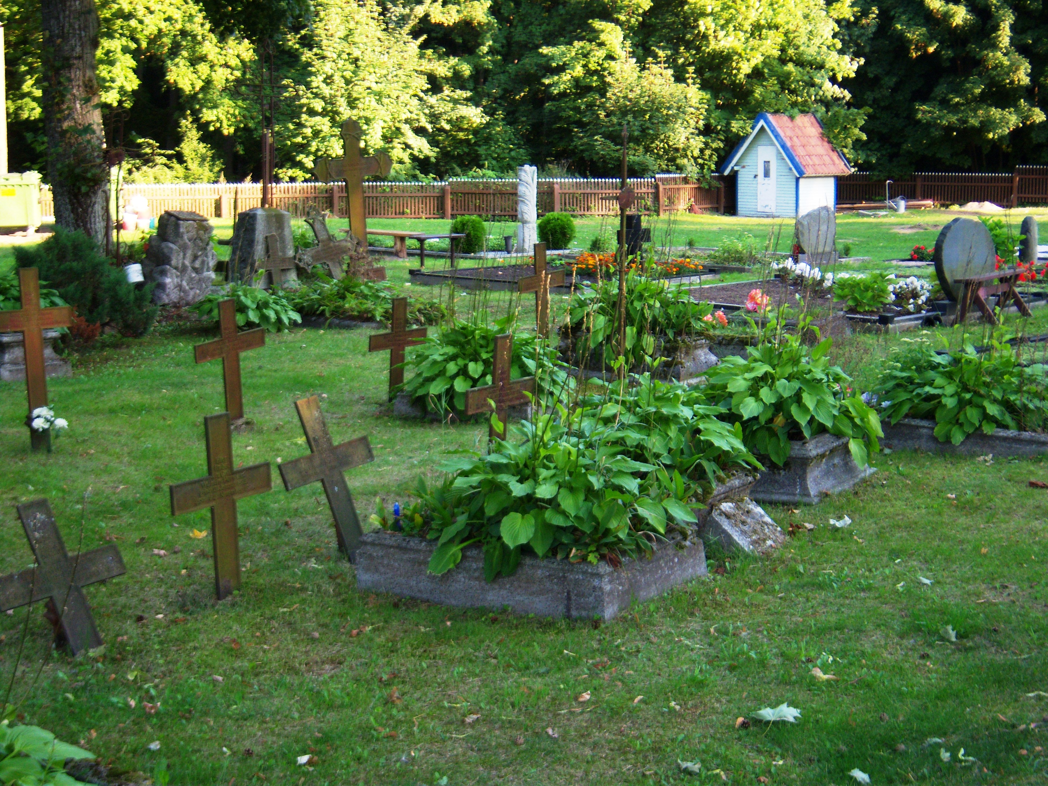 Cemetery in Juodkrantė, tombs, Lithuania